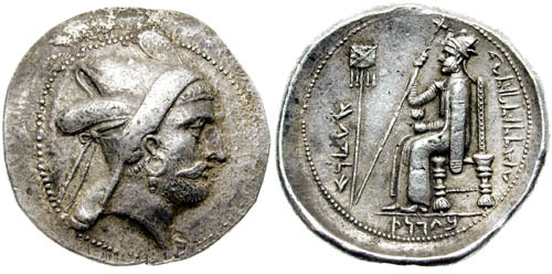 Coin of Bagadates I, king of the Persis with Derafsh Kaviani